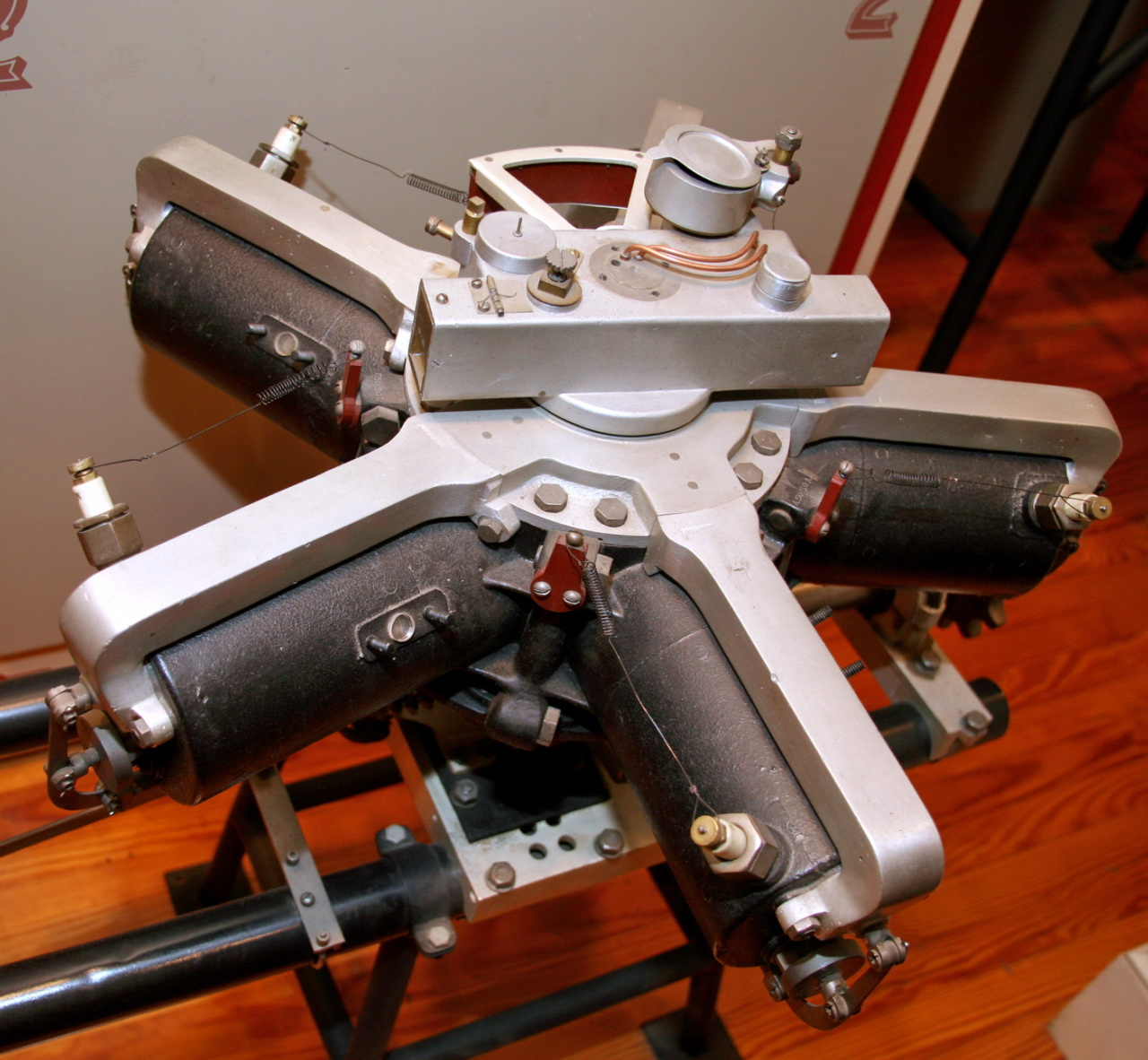 Designed and built by the Adams Company of Dubuque, Iowa, in 1907, this engine powered three, man-lifting experimental helicopters designed by Emile Berliner and flown in 1909 and 1910, and one designed by J. Newton Williams and flown in 1909. The engine was extremely light, and was ideal for vertical flight experiments